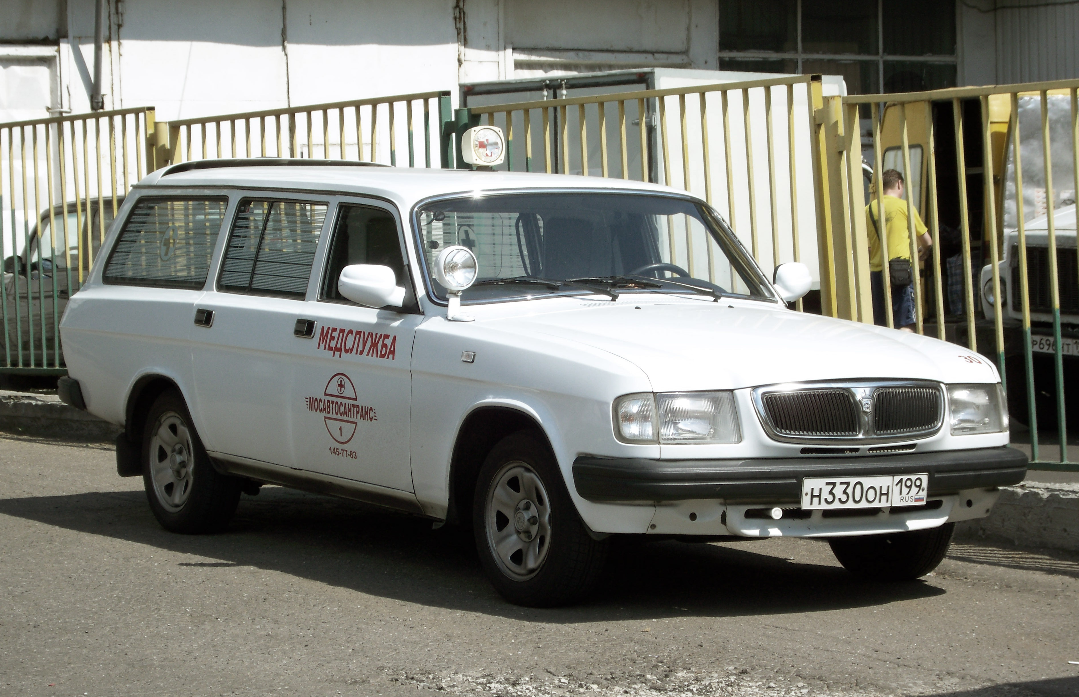 GAZ 31223 medical service station wagon